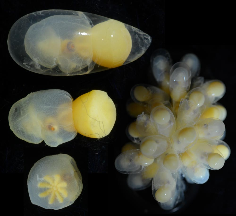 Egg string and embryos of Haliphron atlanticus, collected north of Cape Verde Islands (17°24′N 22°57′W / 17.4°N 22.95°W). Eggs measure around 8 mm in long axis. Identified by R. E. Young and Mike Vecchione "based on size of eggs and equal length of arms of embryos and their capture in a pelagic trawl at 300 m depth over a bottom of about 3,000 m". Held in collections of NMNH.